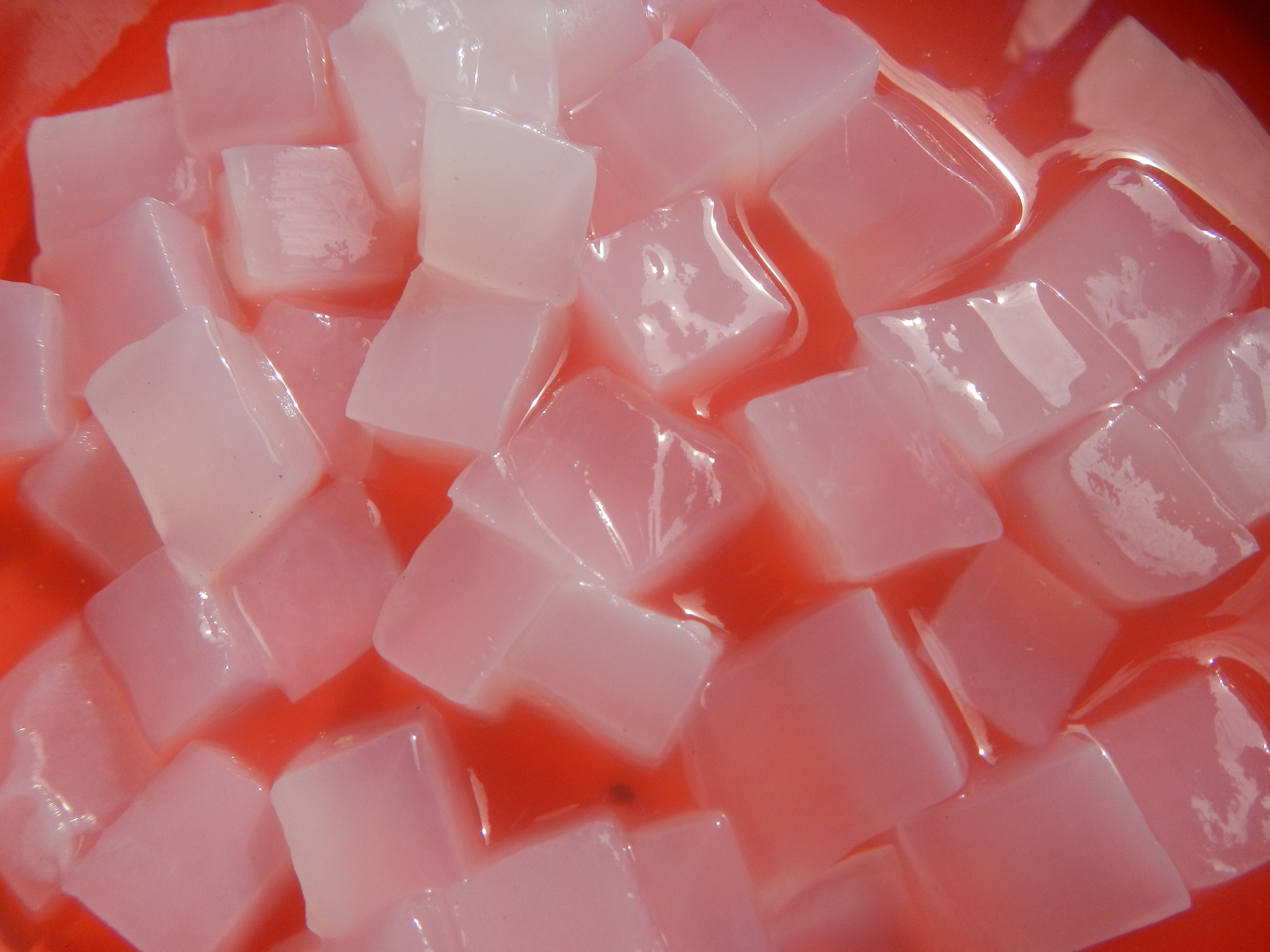 List of Philippine dishes Pinipig Sago Nata de Coco Utaw Soya in Barangay Poblacion 14°57'17"N 120°54'2"E beside Pagala 14°58'14"N 120°53'26"E Baliuag, Bulacan, Bulacan province (Note: Judge Florentino Floro, the owner, to repeat, Donor Florentino Floro of all these photos hereby donate gratuitously, freely and unconditionally all these photos to and for Wikimedia Commons, exclusively, for public use of the public domain, and again without any condition whatsoever).